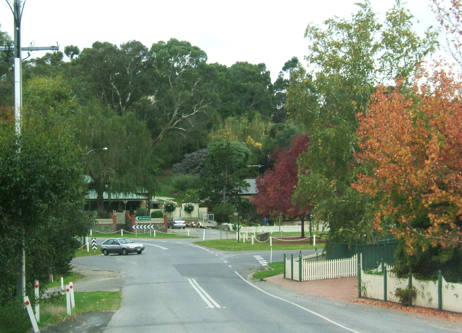 Houghton, South Australia